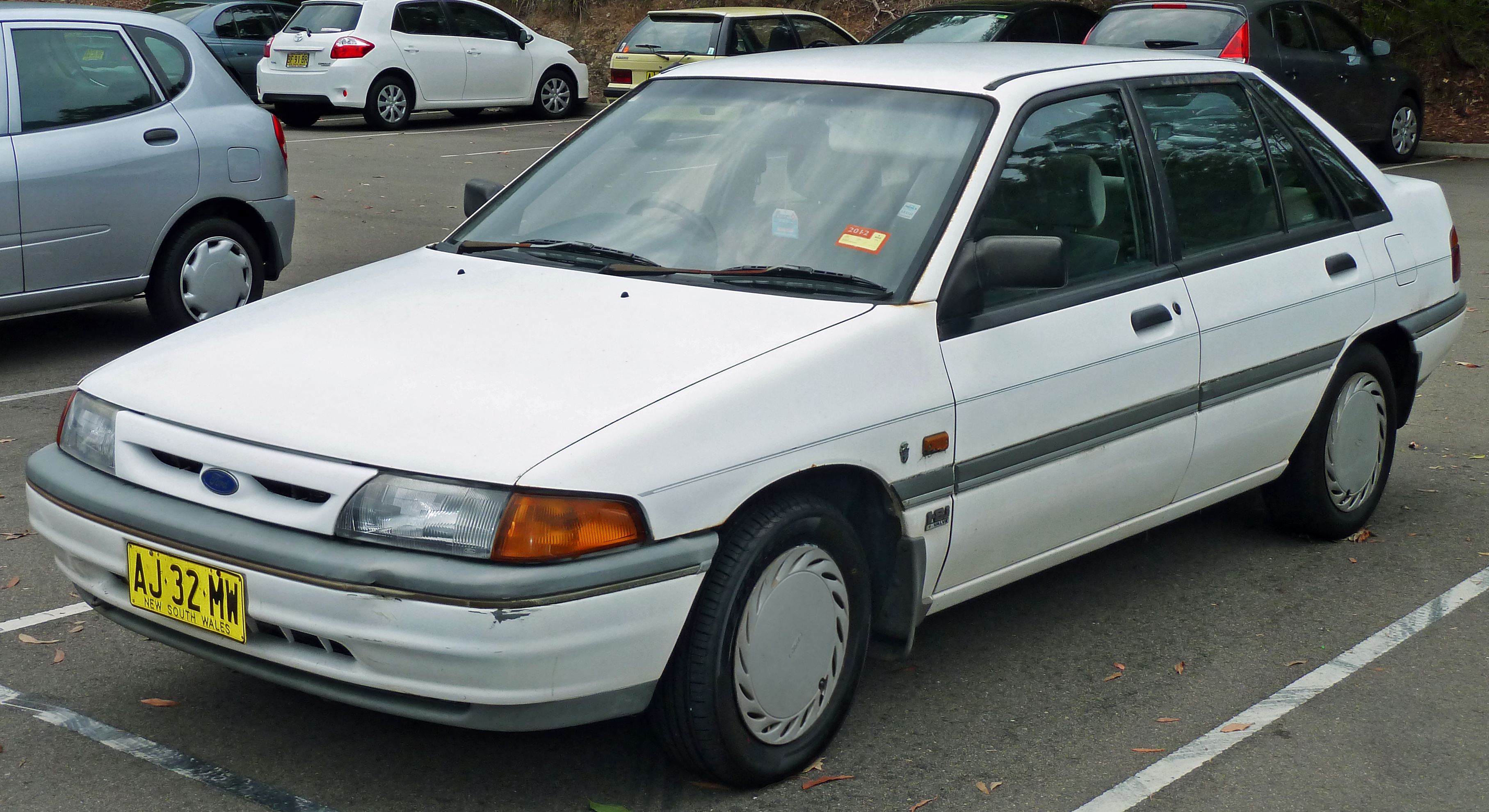 1991–1994 Ford Laser (KH) Ghia 5-door hatchback. Photographed in Kirrawee, New South Wales, Australia.